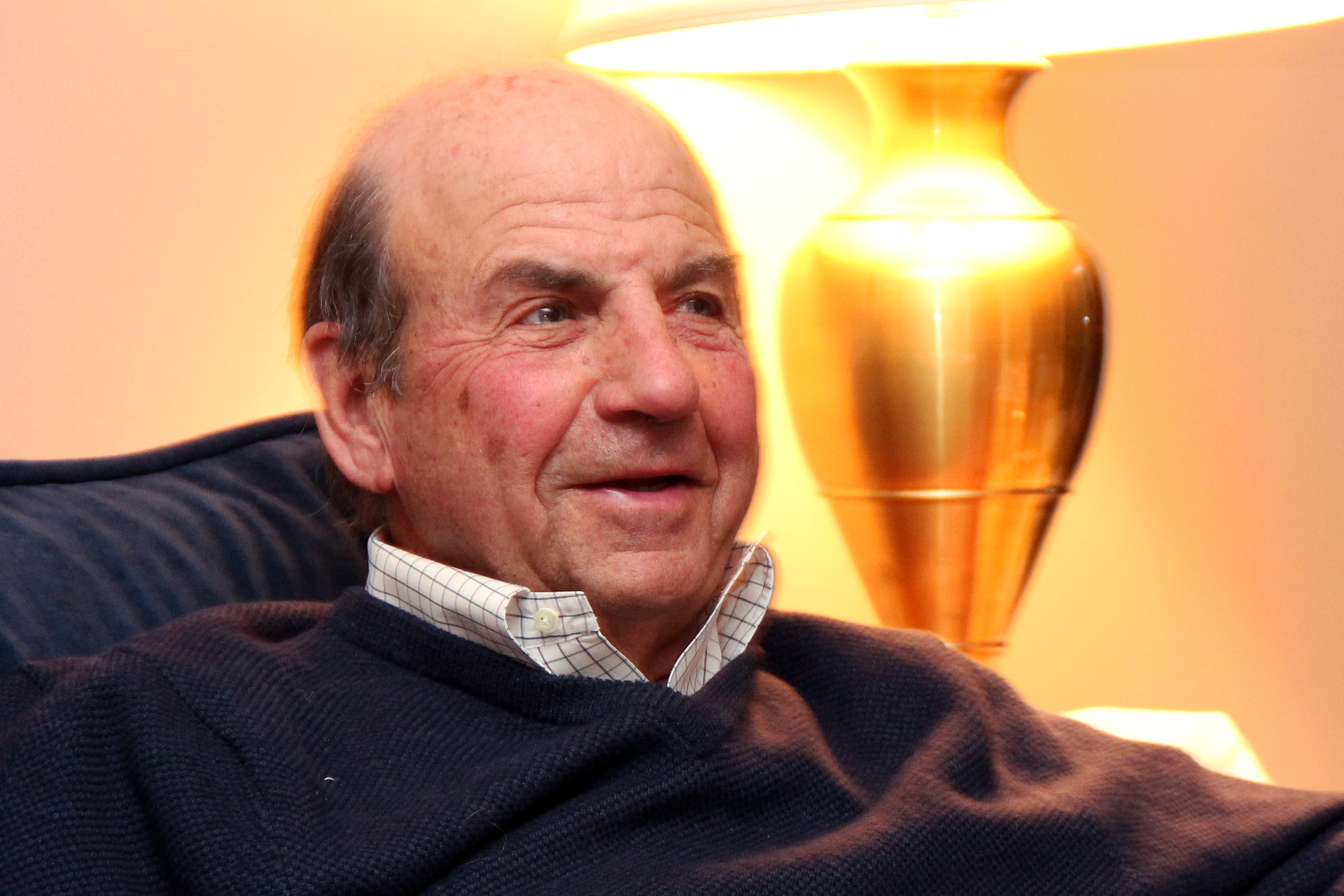 American writer and humorist Calvin Trillin at a discussion at Dartmouth College